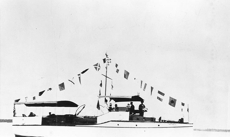 The motorboat Nemes, prior to her service as the United States Navy patrol vessel USS Nemes (SP-424).